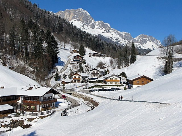 village "Maria Gern" with mountain "Untersberg"